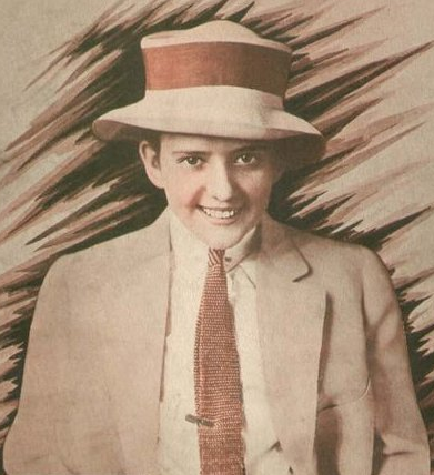 Florence Tempest, from the front of 1913 sheet music for "Go, Get That Guy". White woman dressed in a panama hat, masculine suit and tie, smiling at camera; photograph is tinted in pinks and browns.